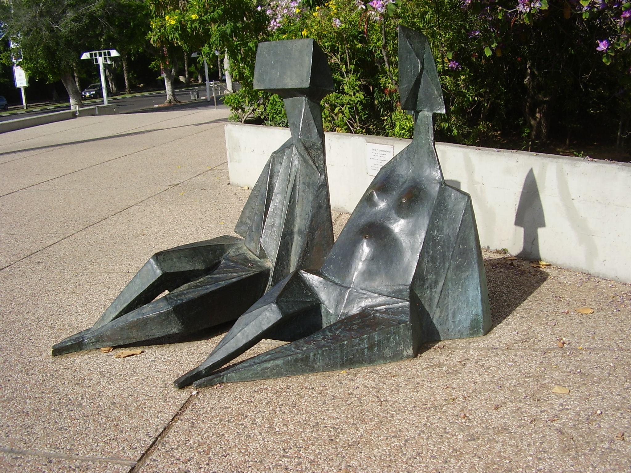 "Two Seated Figuers" by Lynn Chadwick in Tel Aviv